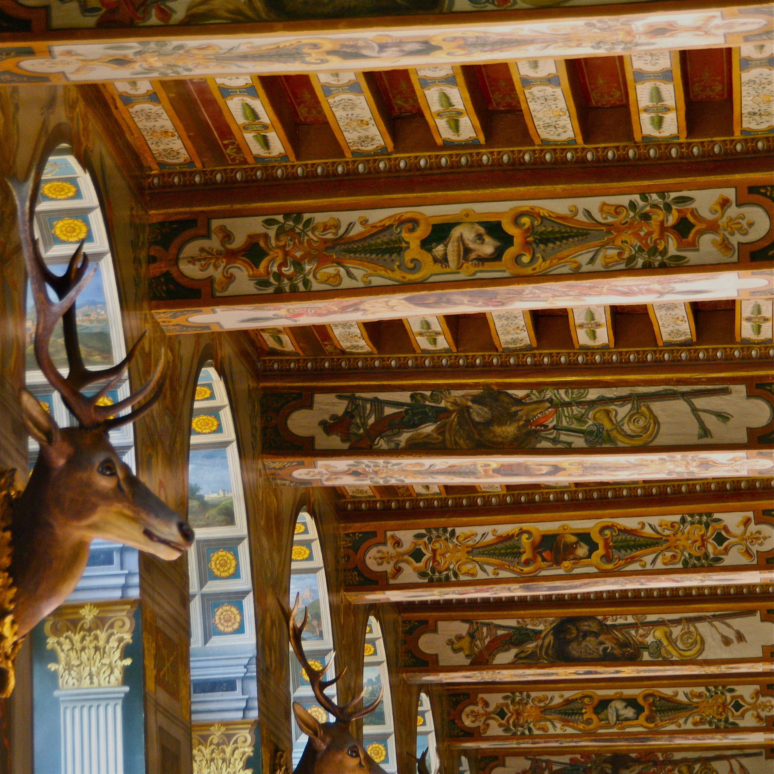 Fontainebleau castle, France : ceiling of the gallery of stags (galerie des cerfs).